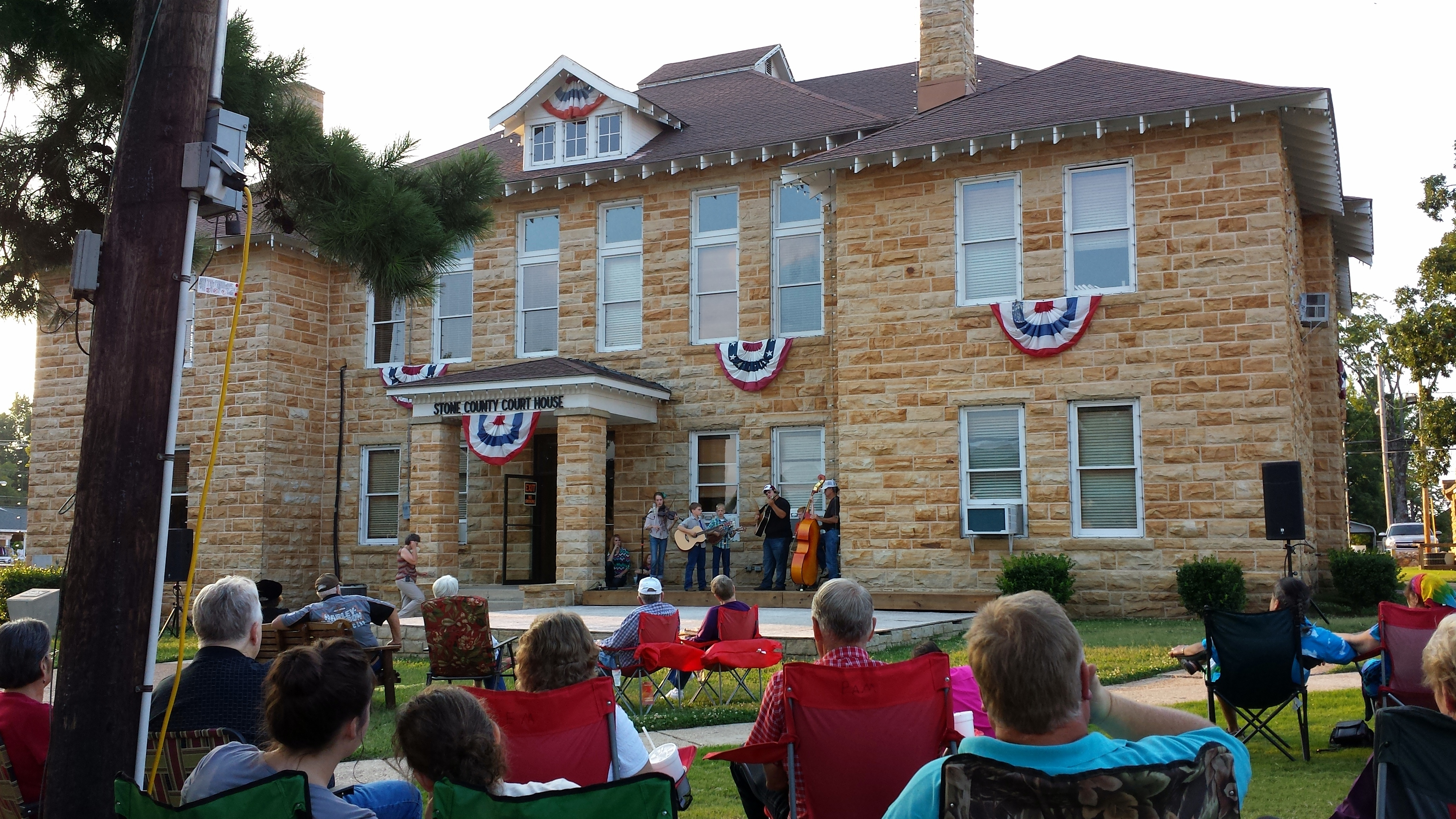 Saturday night music on the courthouse steps